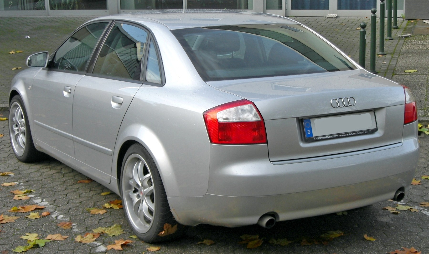 Description: Audi A4 B6 Source: Matthias Other Version(s)